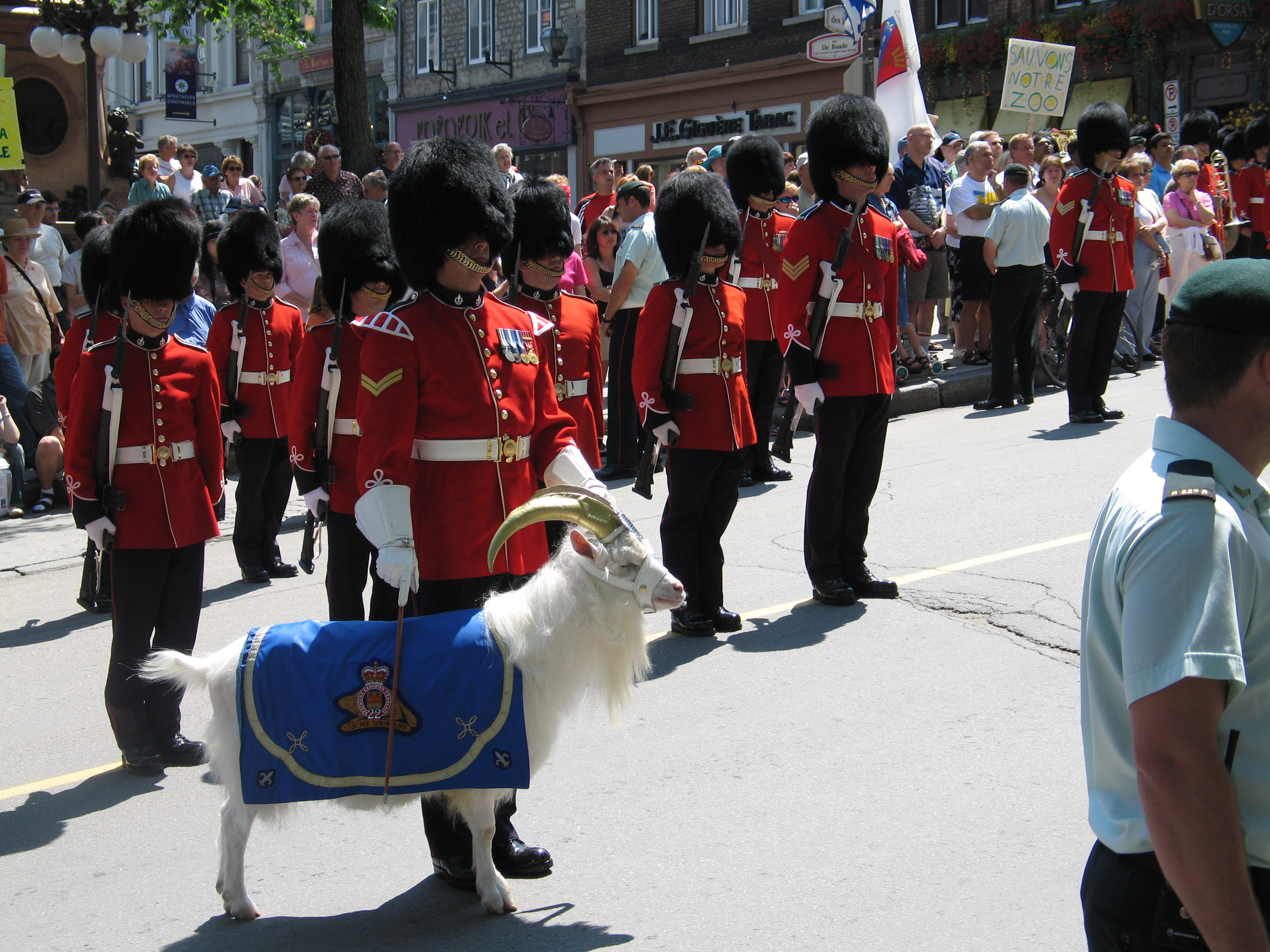 The mascot of the Royal 22e Régiment of the Canadian Forces, a goat named Batisse X, participates in the Freedom of the City ceremony in front of City Hall during the celebration commemorating the 398th anniversary of Quebec City, on July 3, 2006.